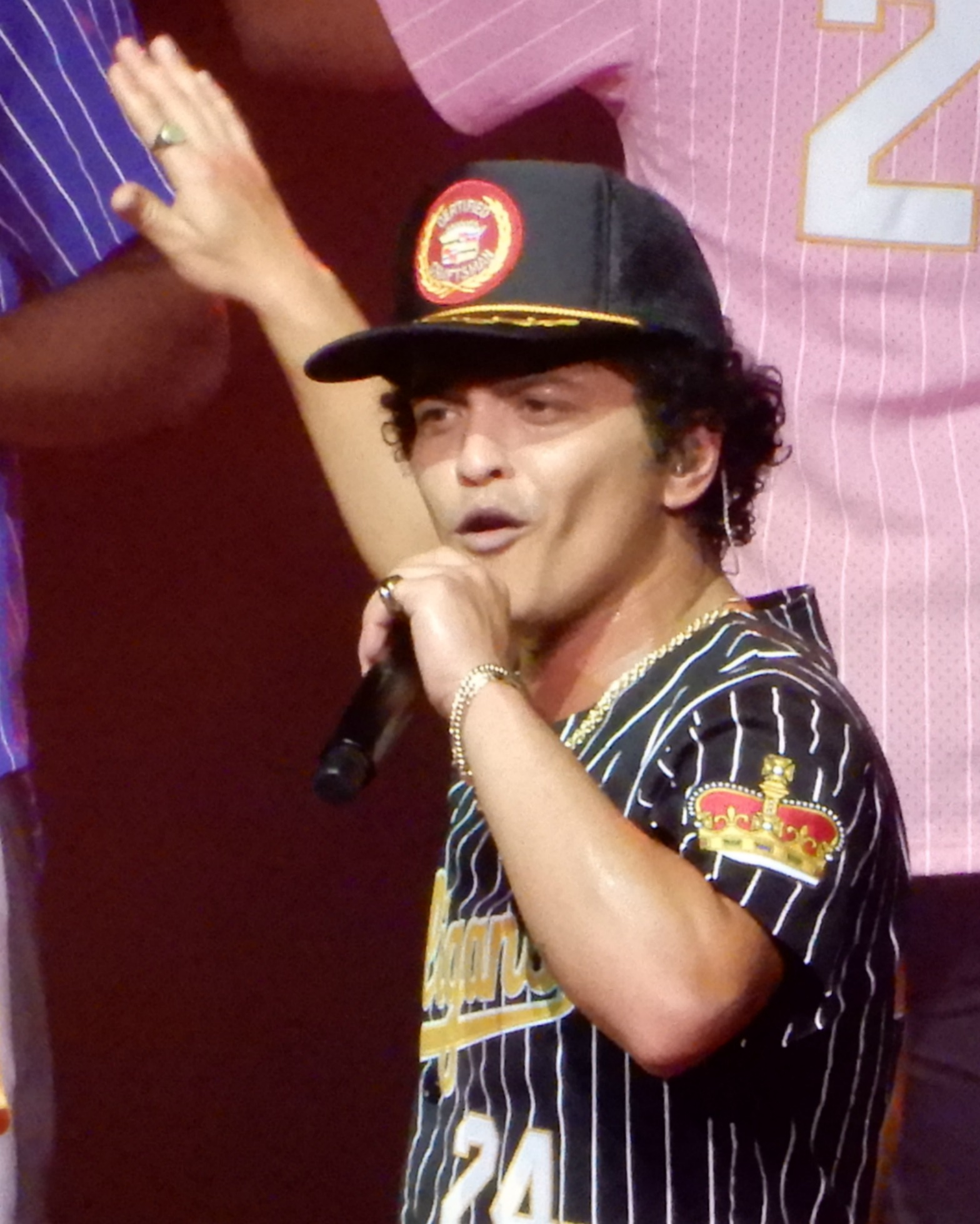 At the Prudential Center, Newark, NJ